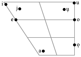 IPA vowel chart for Igbo.